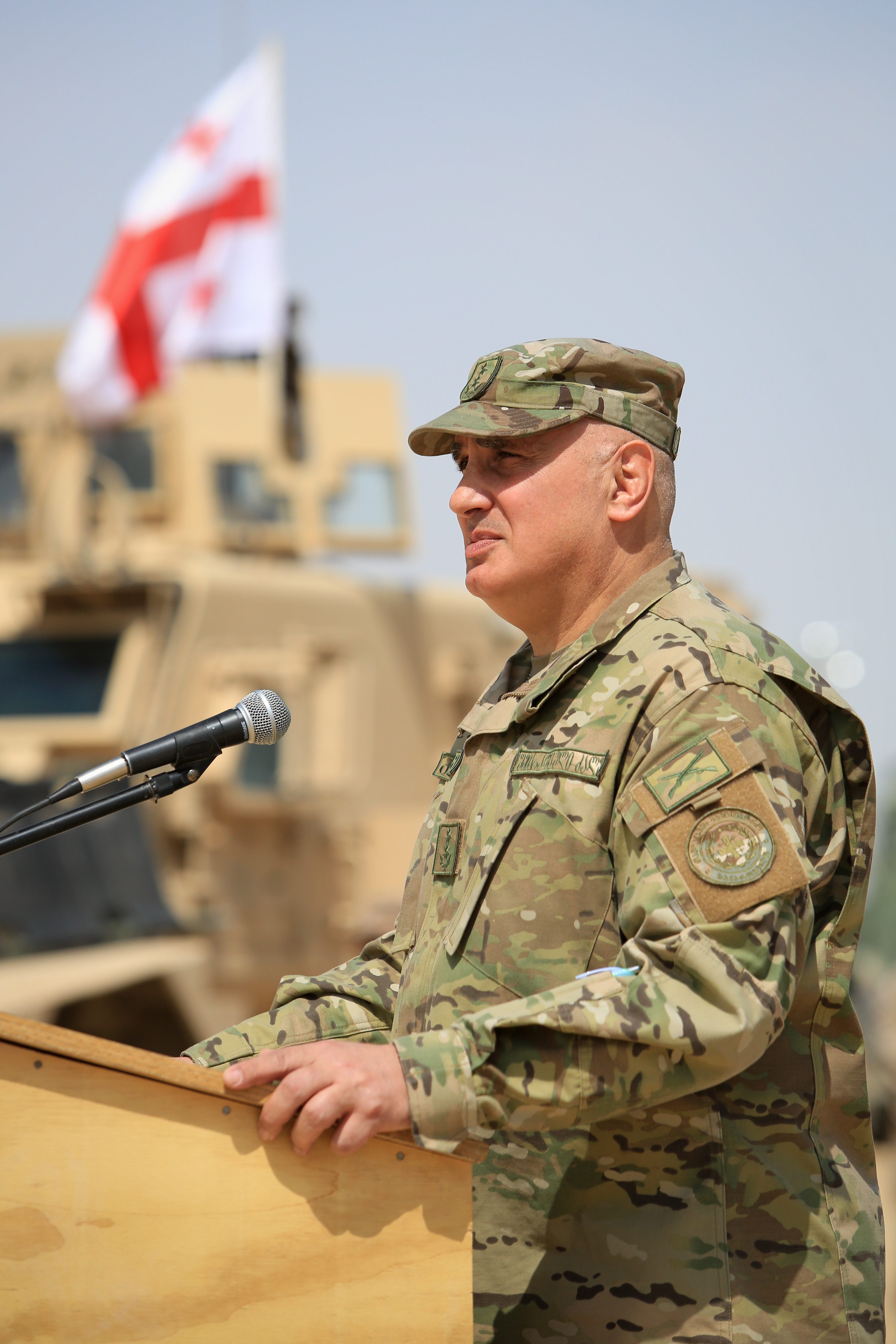 Georgian Army hosts Easter ceremony, Helmand. 2014